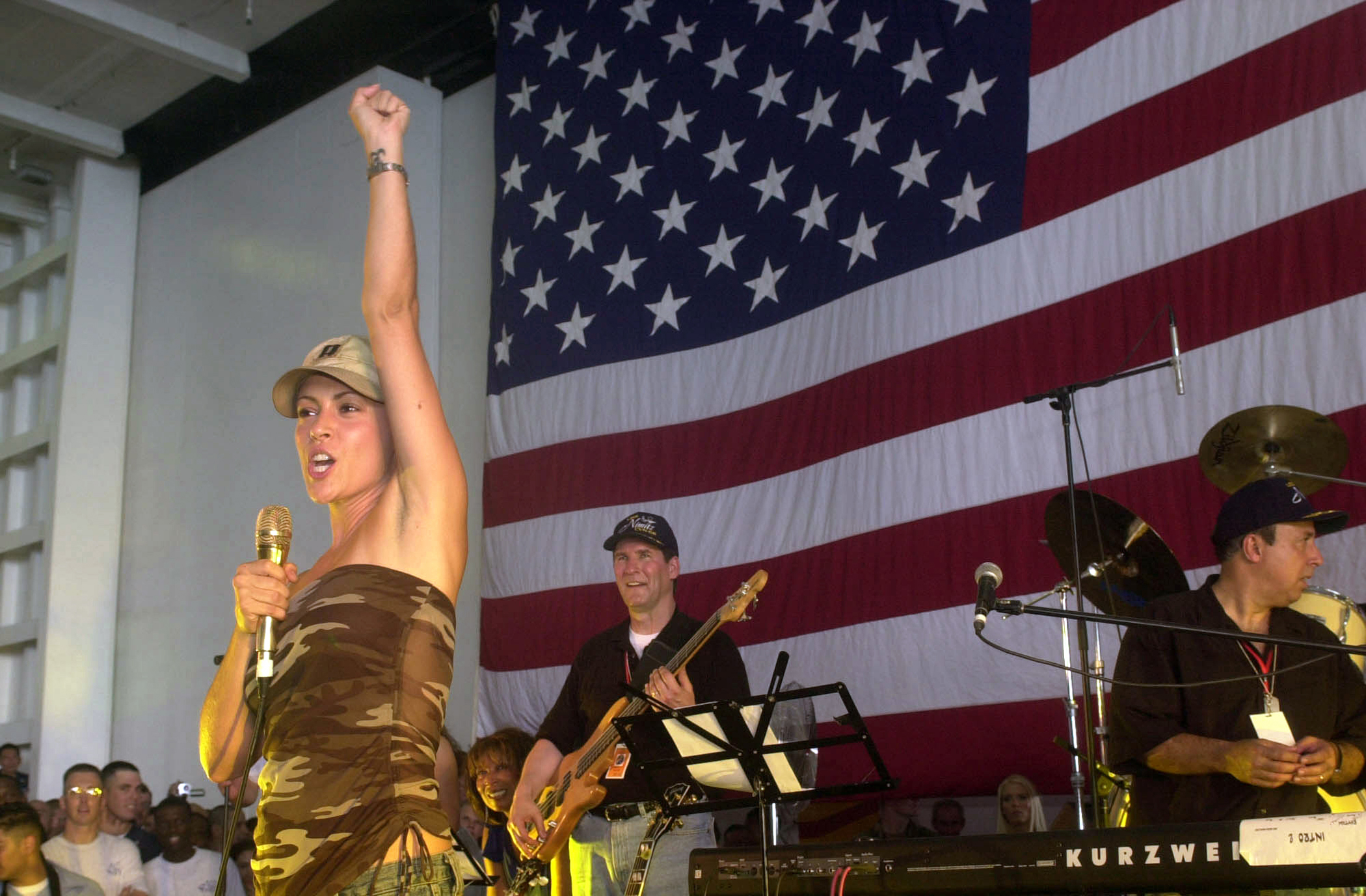 030619-N-7027P-001 The Arabian Gulf (Jun. 19, 2003) -- Actress Alyssa Milano speaks to crewmembers during a visit aboard USS Nimitz (CVN 68) for a United Services Organization (USO) show. Nimitz Carrier Strike Group and Carrier Air Wing Eleven (CVW-11) are deployed in support of Operation Iraqi Freedom. Operation Iraqi Freedom is the multi-national coalition effort to liberate the Iraqi people, eliminate Iraq’s weapons of mass destruction, and end the regime of Saddam Hussein. U.S. Navy photo by Photographer’s Mate 3rd Class Sandra Palumbo. (RELEASED) A cropped version focusing on Milano can be found at Image:Alyssa Milano Liberty.jpg.